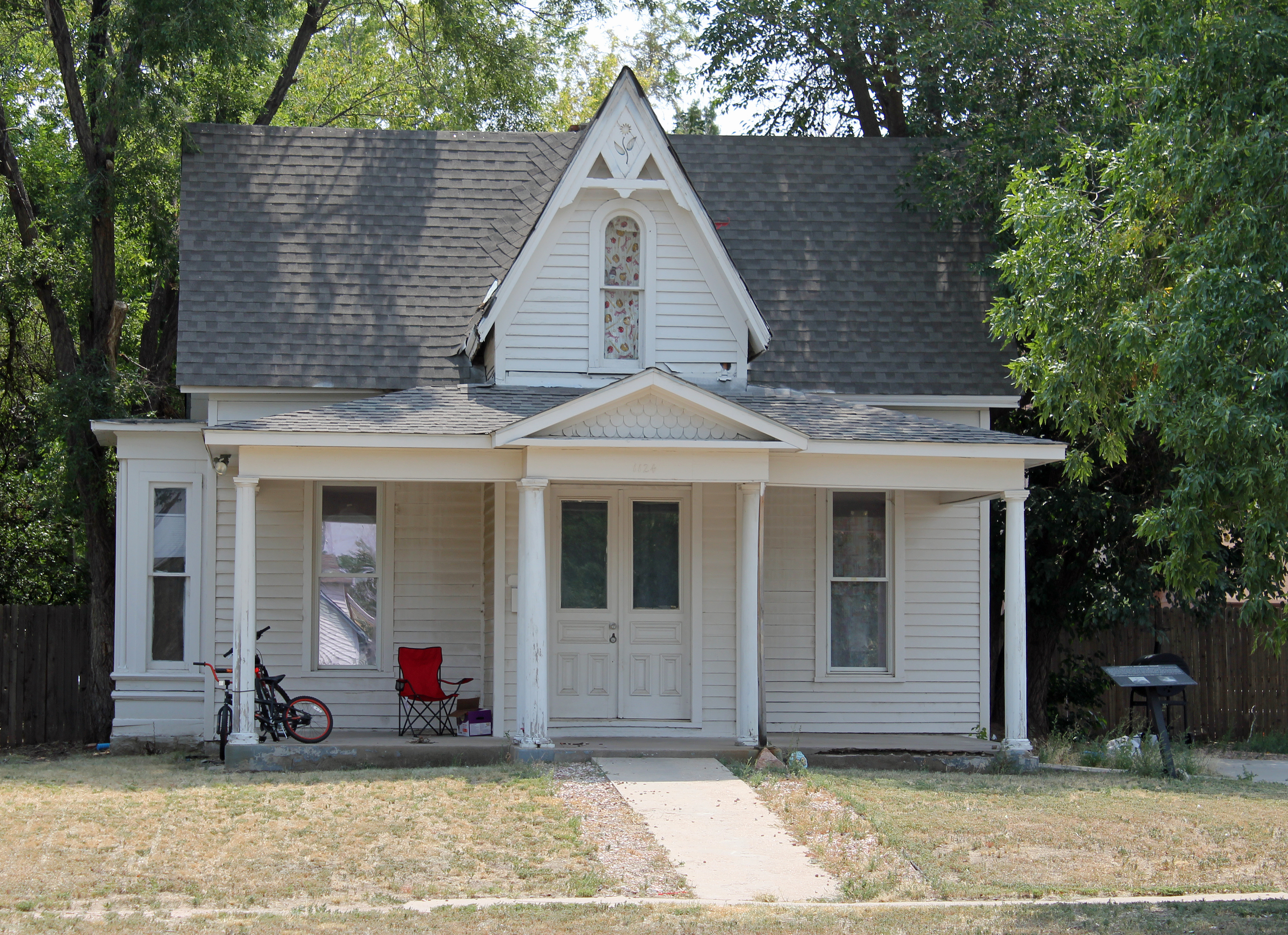 The Joseph A. Woodbury House, located at 1124 7th Street in Greeley, Colorado. The house is listed on the National Register of Historic Places.